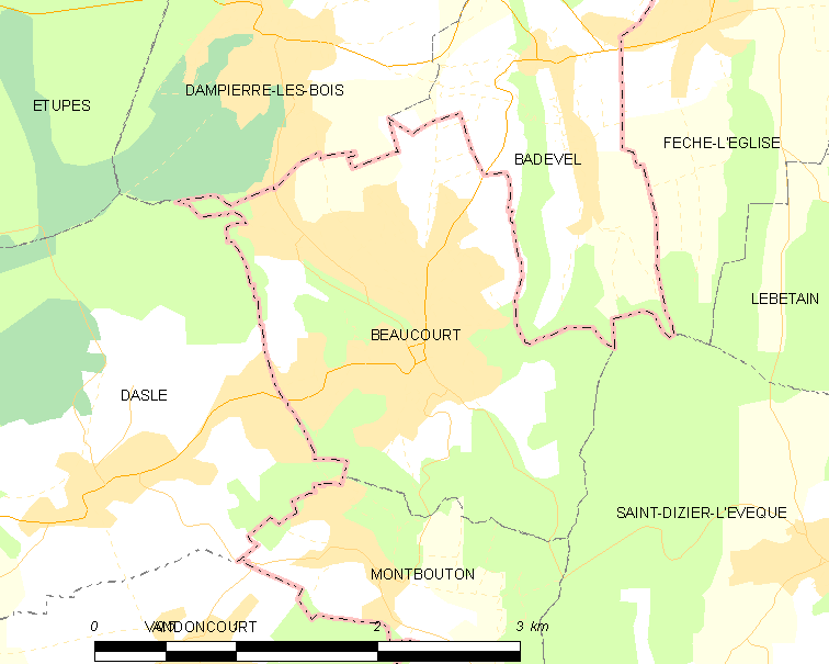 Map of French municipality Beaucourt